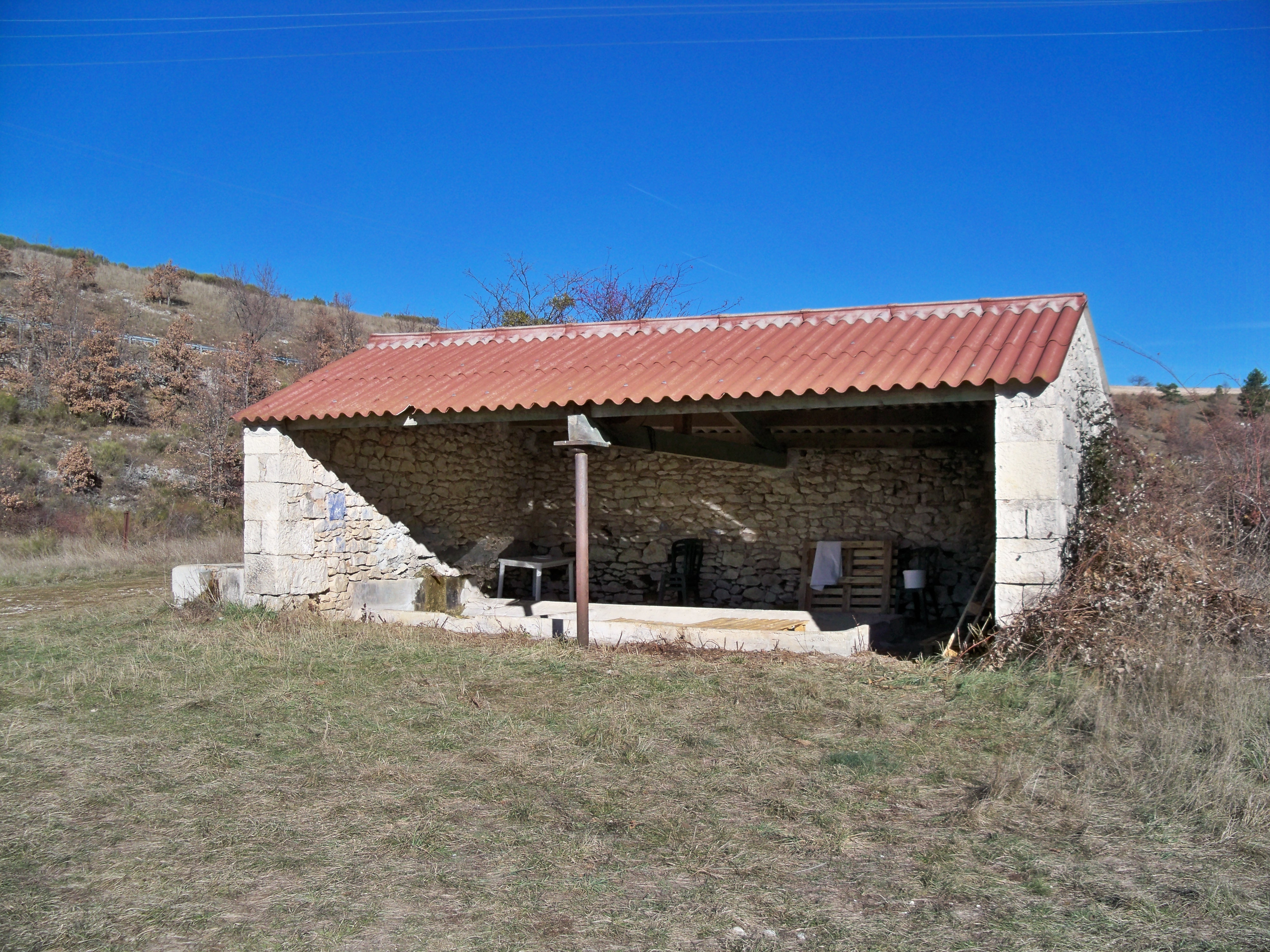 wash house near Revest du Bion (04)